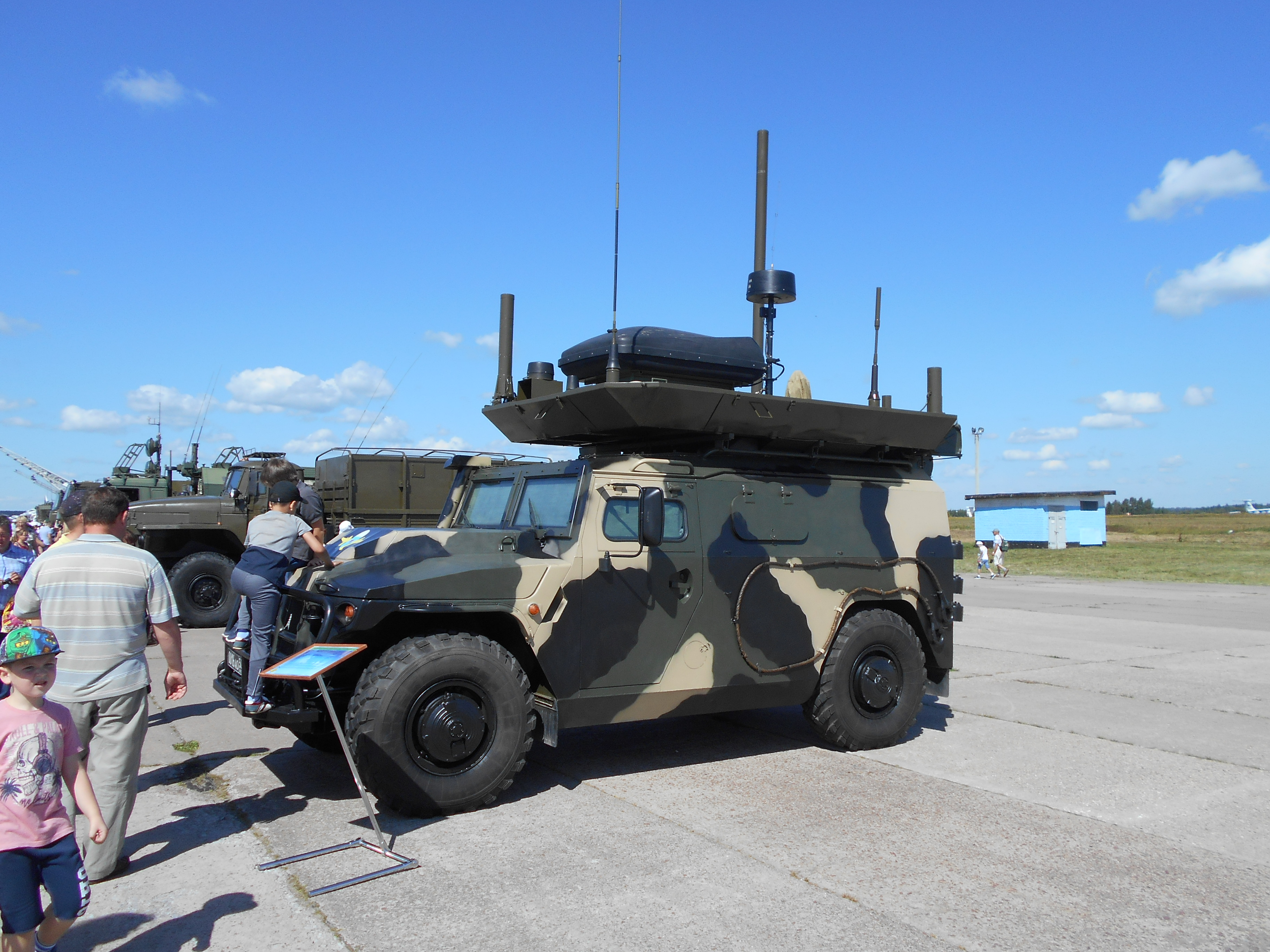 Leer-2 electronic warfare system.